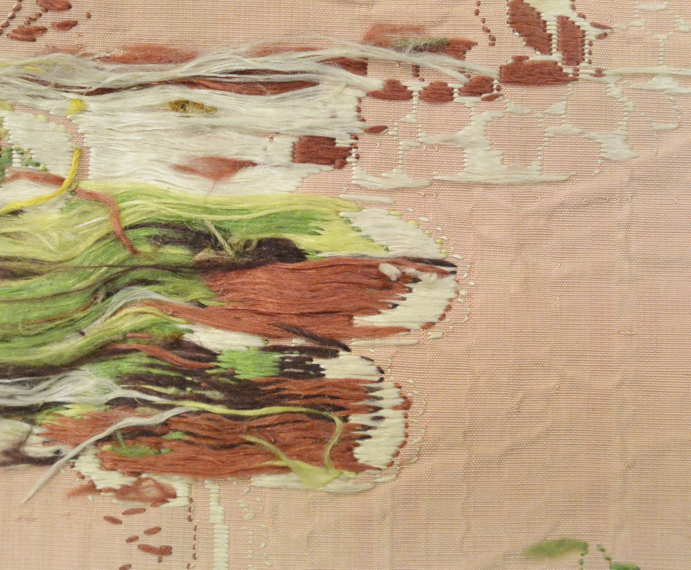 Silk fabric second half 18th century, brocaded pattern, revers side.